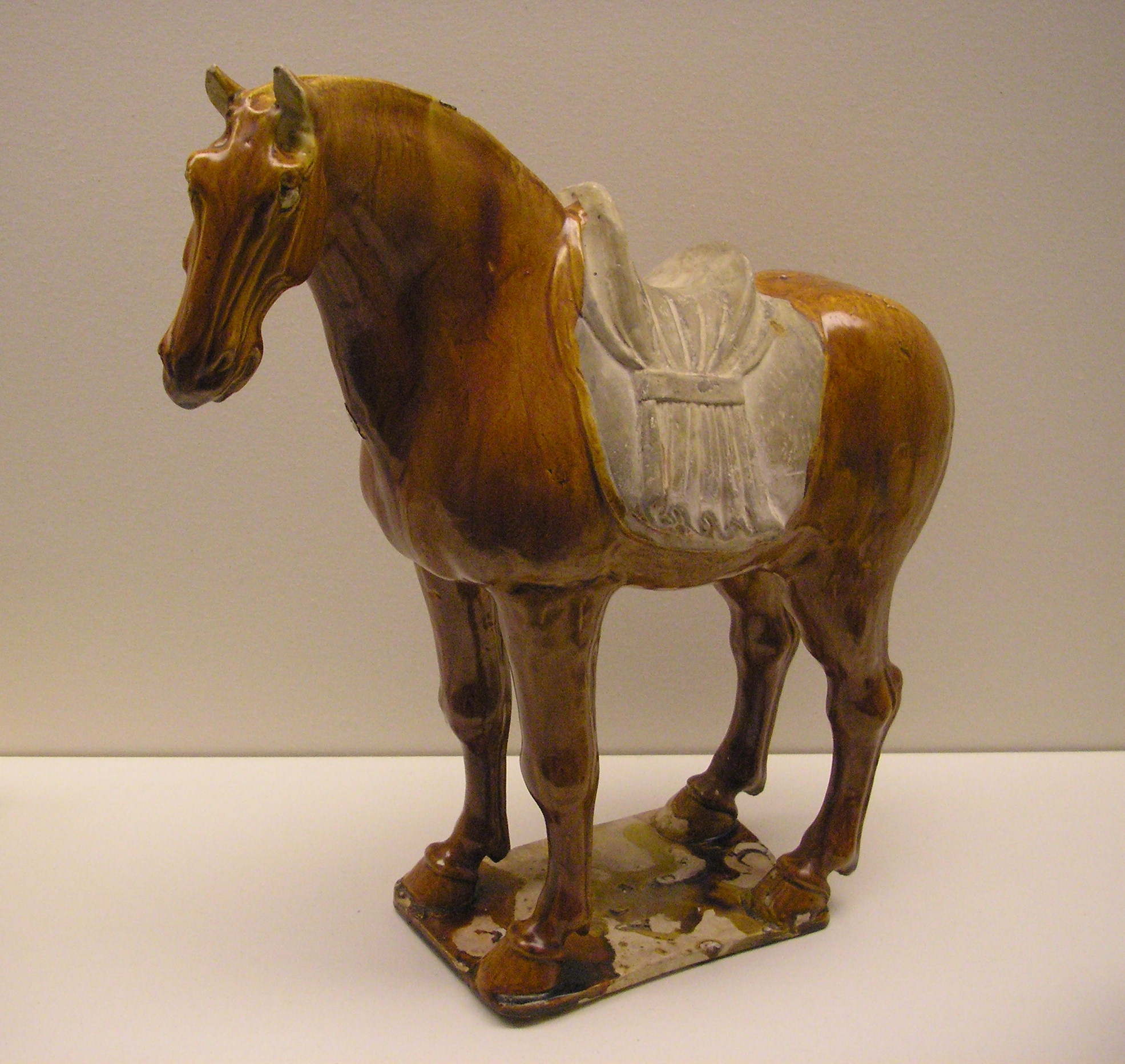 Amberbrown glazed pottery figure of a horse from the Tang Dynasty, 8th century C.E., in the Museum für Ostasiatische Kunst, Berlin-Dahlem.